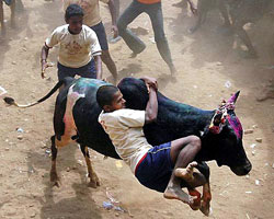 bull riding in Tamilnadu,India